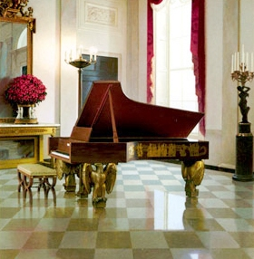 The White House Entrance Hall facing northwest, in a photograph by Zhen-Huan Lu. The photograph was used in the 2002 White House holiday greeting card. The grand piano was built by Steinway.